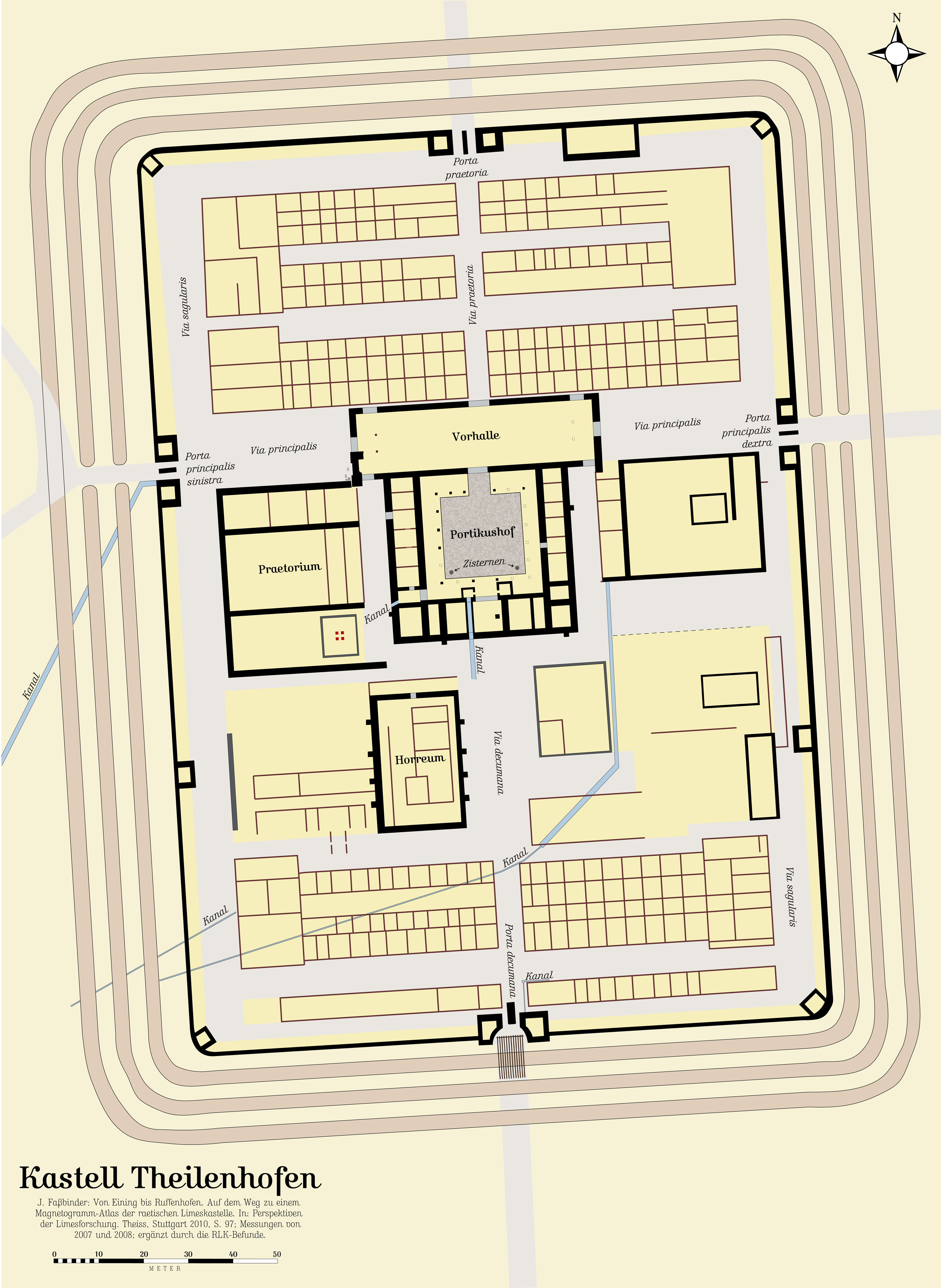 The Roman castle of Iciniacum near Theilenhofen in Bavaria, Germany. The basics of this map are the measurements of the magnetometer from 2007–2008 and the excavations of Reichs-Limes-Kommission and others in the 19th century (1879–1895).